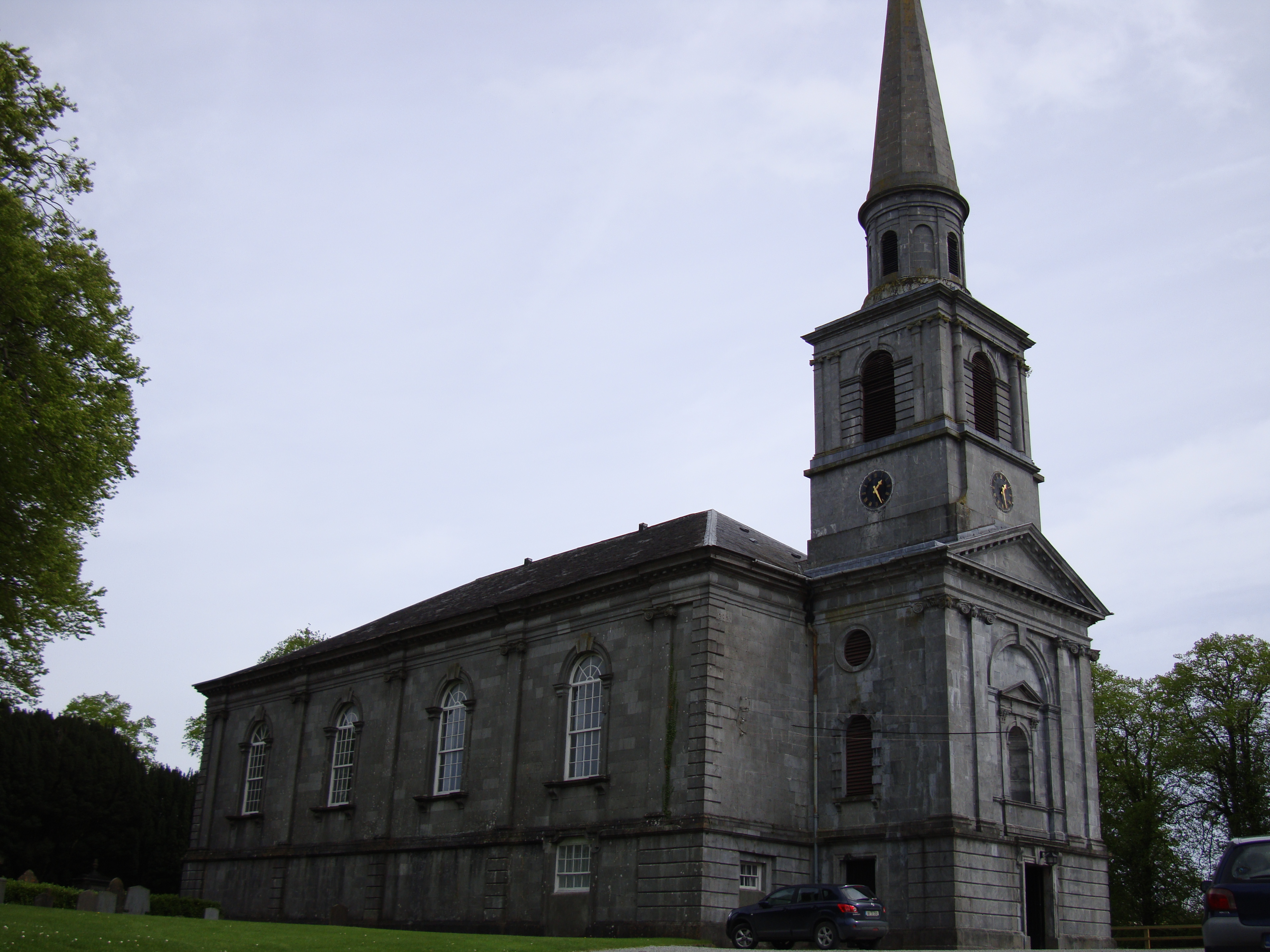 Photograph of the Church of Ireland Cathedral of St John the Baptist and St Patrick's Rock, Cashel, Co. Tipperary, Republic of Ireland